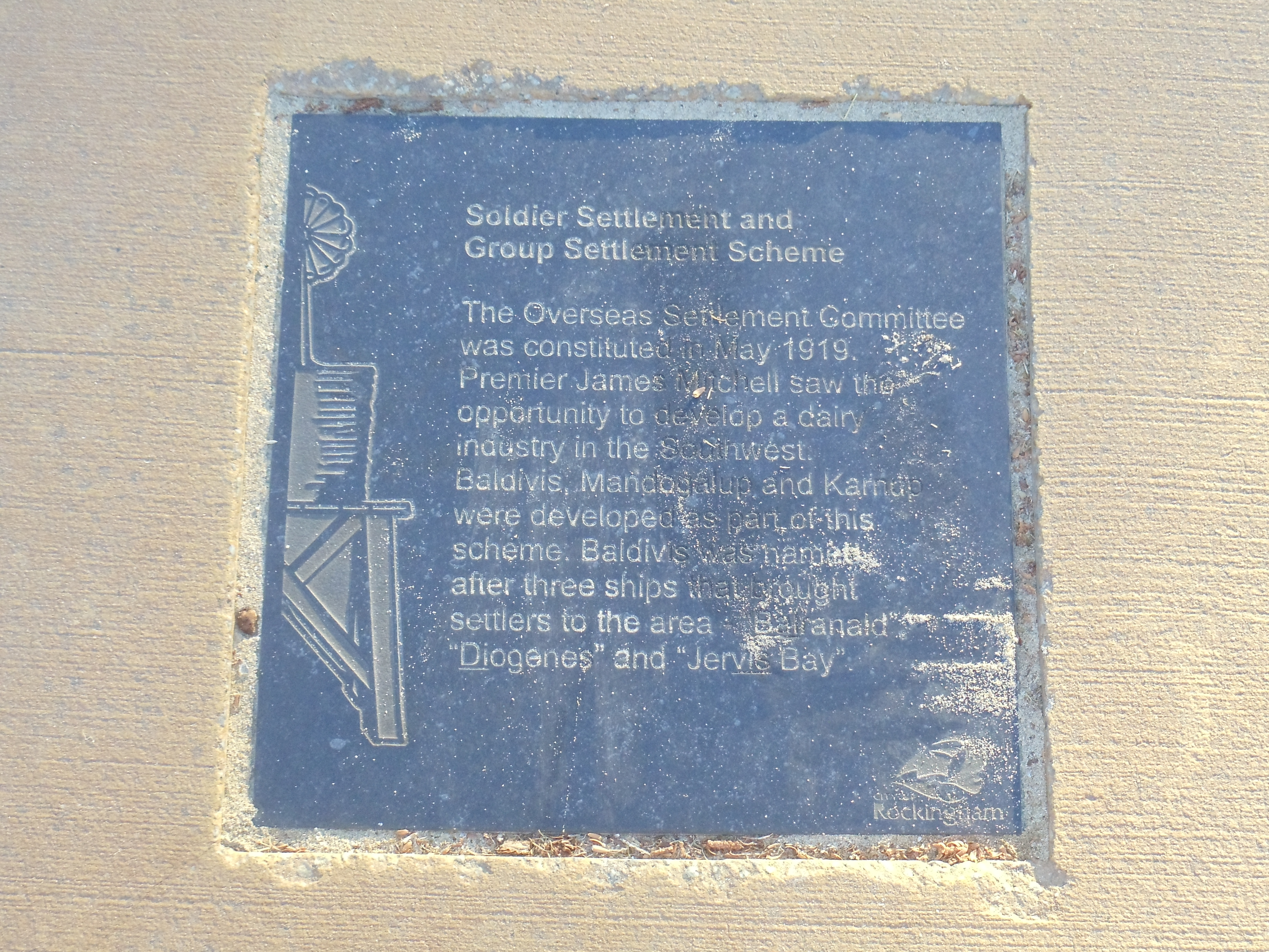 Plaque about the Soldier Settlement and the Group Settlement Scheme on the Rockingham Waterfront Pioneer Rotary Walk in Rockingham, Western Australia. It reads, "The Overseas Settlement Committee was constituted in May 1919. Premier James Mitchell saw the opportunity to develop a dairy industry in the Southwest. Baldivis, Mandogalup and Kamup were developed as part of this scheme. Baldivis was named after three ships that brought settlers to the area: Balranald, "Diogenes" and "Jervis Bay". "